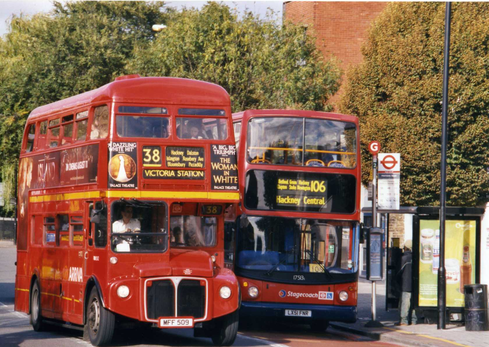 A c 1961 short Routemaster and a Stagecoach vehicle from 40 years later. On October 29th 2005, Routemaster service on the 38 ended for good, and the RMs were replaced by the "free" Mercedes Benz "bendy-buses", on which fare collection is probably about 25 per cent. No wonder people are so reluctant to board a double decker when a free one will be along in a minute. Well done, Ken.